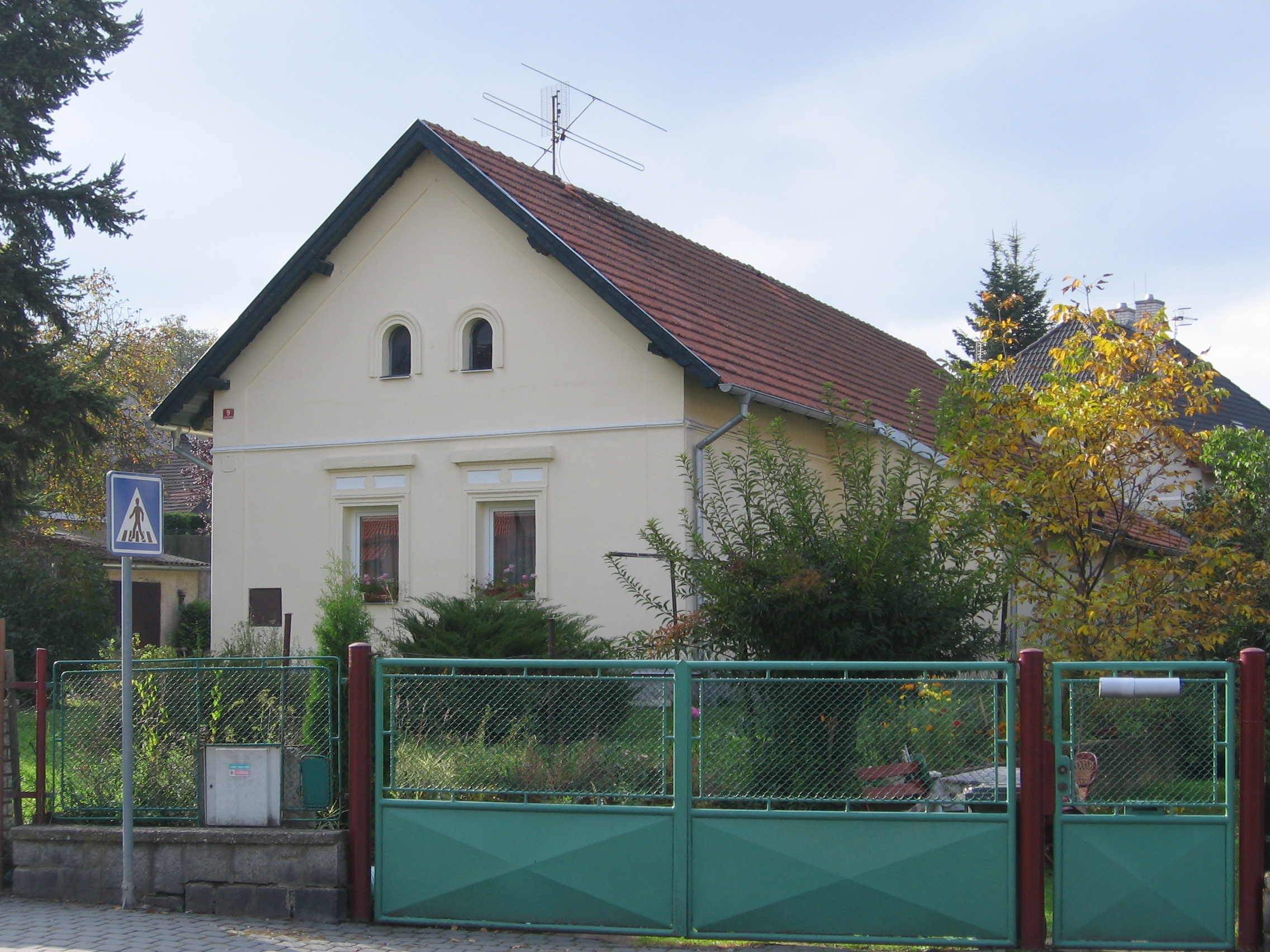 Strančice No. 9 - native house of Emil Kolben